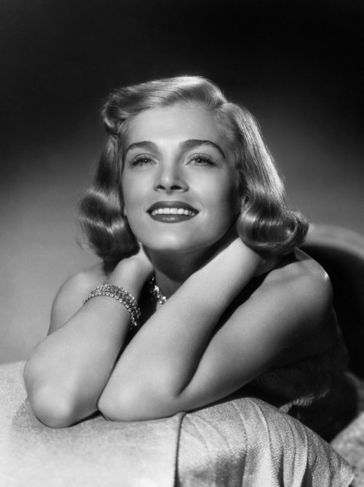 Promotional photograph of actor Lizabeth Scott (1949).